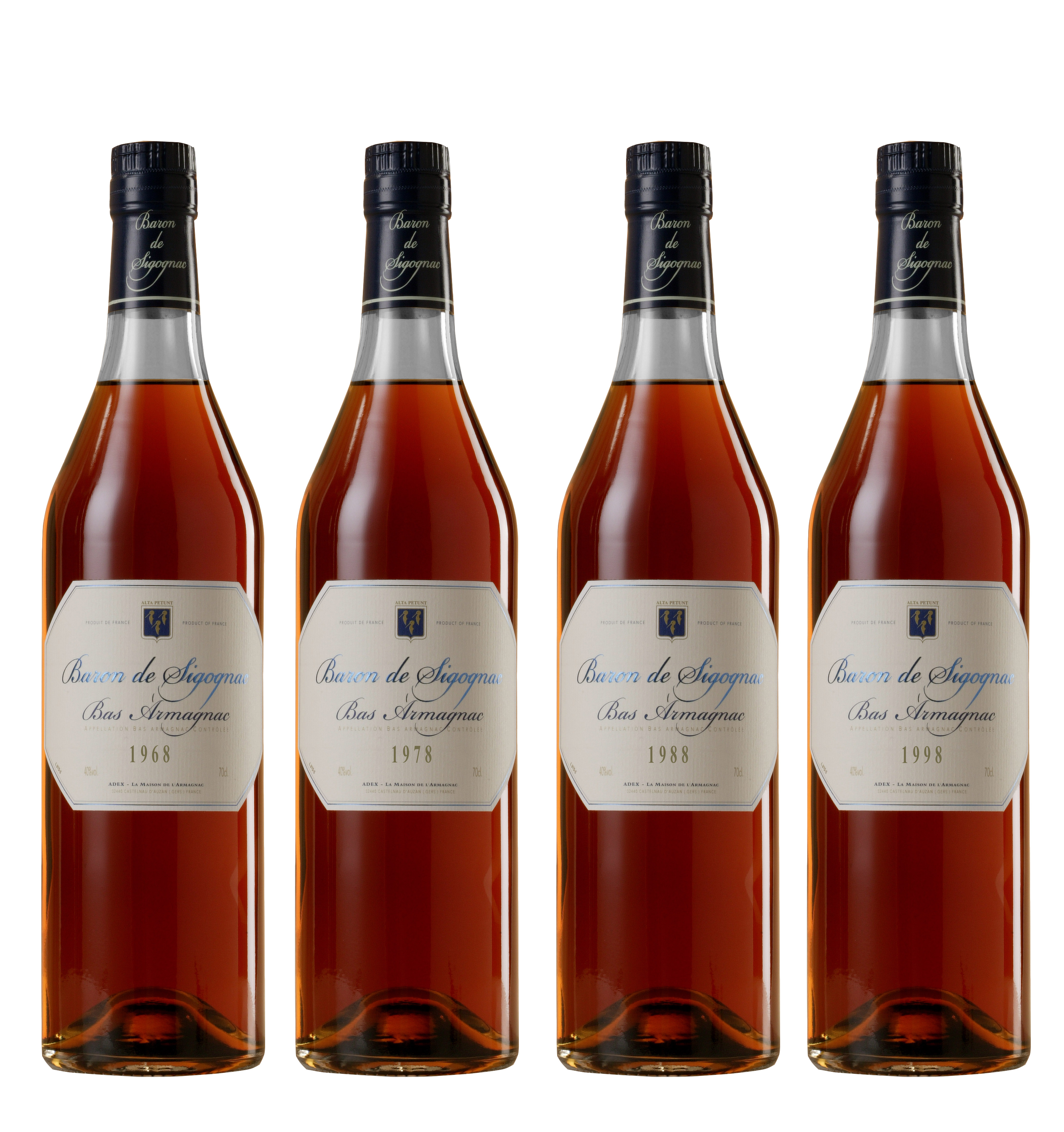 Hand made Armagnac from an independent producer.